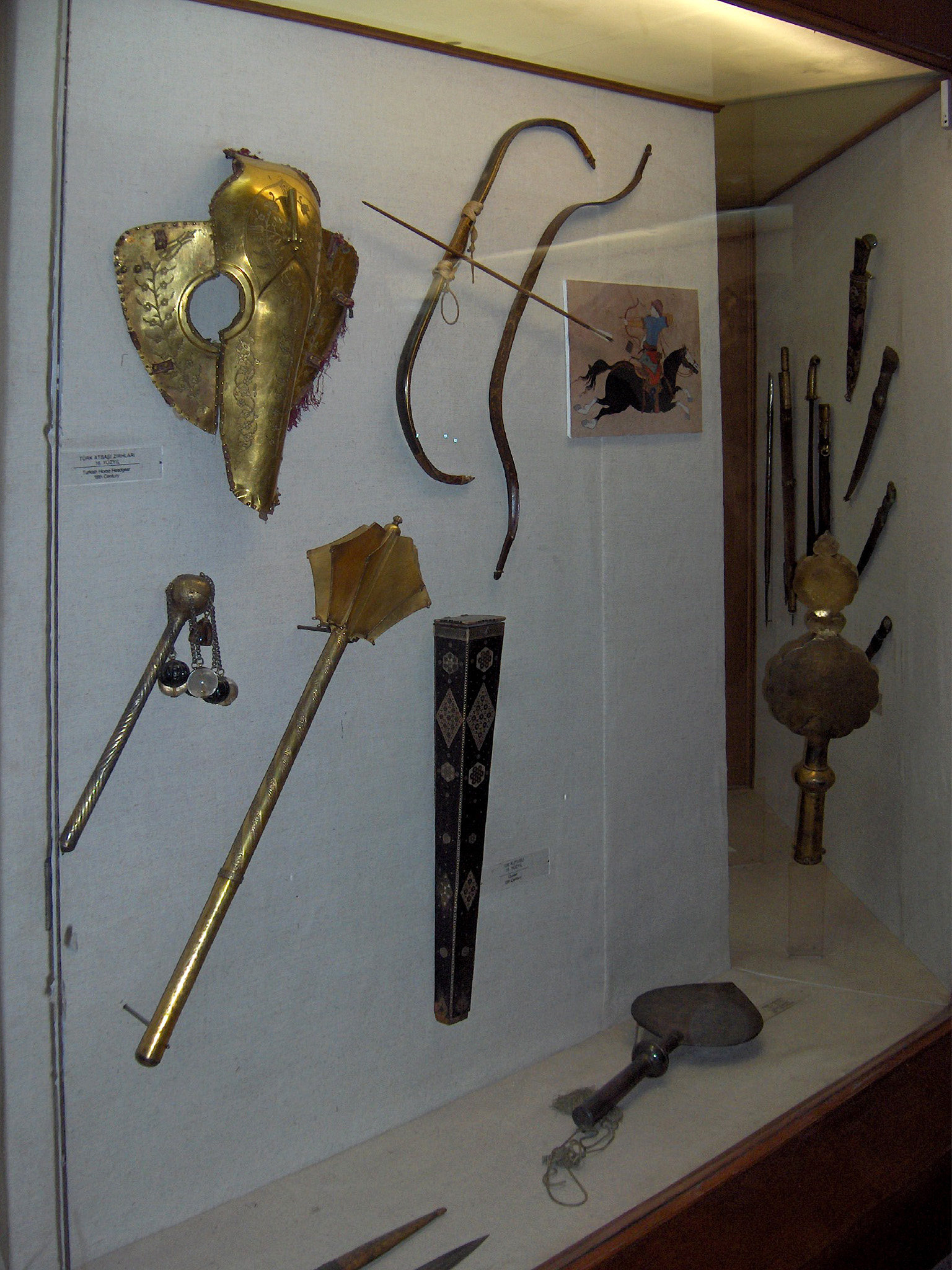 Several Turkish weapons, flanged mace and horse headgear (16th c.); Topkapı Palace, Istanbul, Turkey